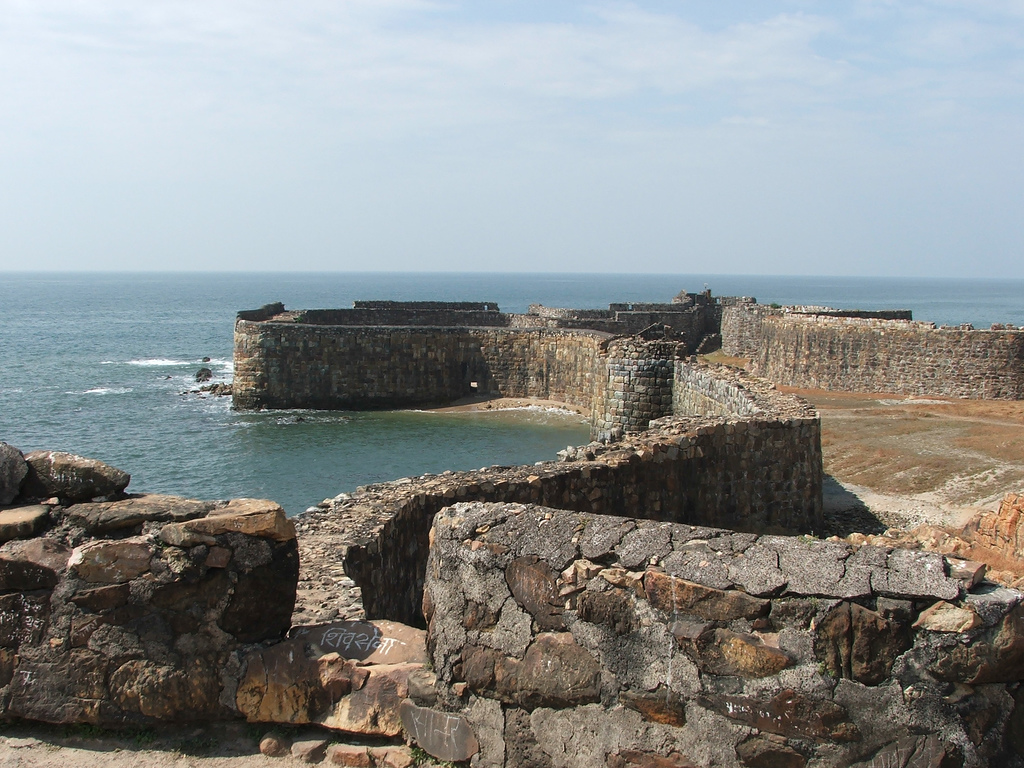 Sindhudurga fort's west-side wall.Sindhudurg was built by shivaji in 1664-67 AD Infrastructure-inside the fort is the Sri Shivarajeshwar temple and many other temples.